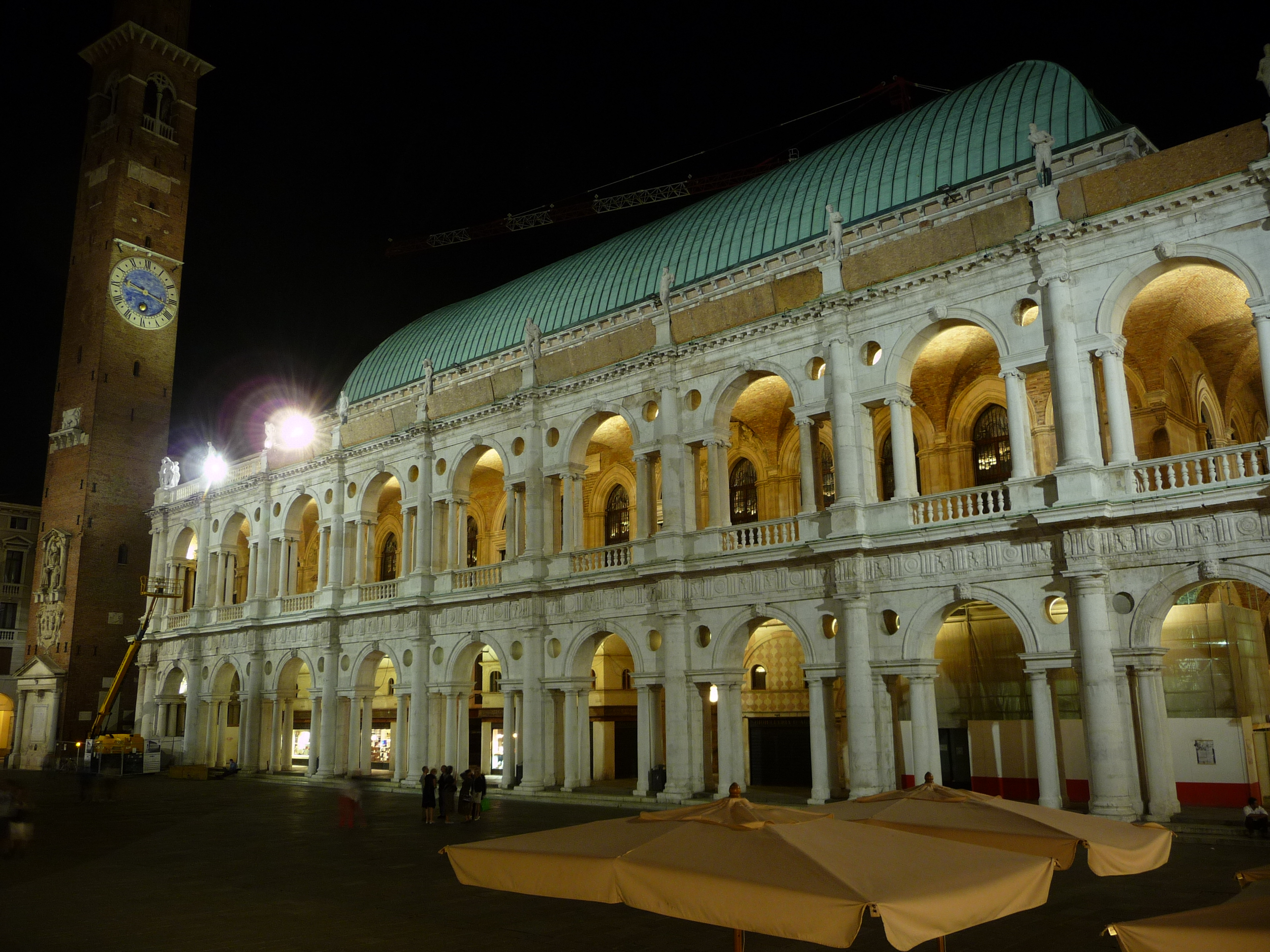 The Basilica Palladiana (Piazza dei Signori, Vicenza, Italy), illuminated by the new lighting system, which was inaugurated on September 18, 2011.